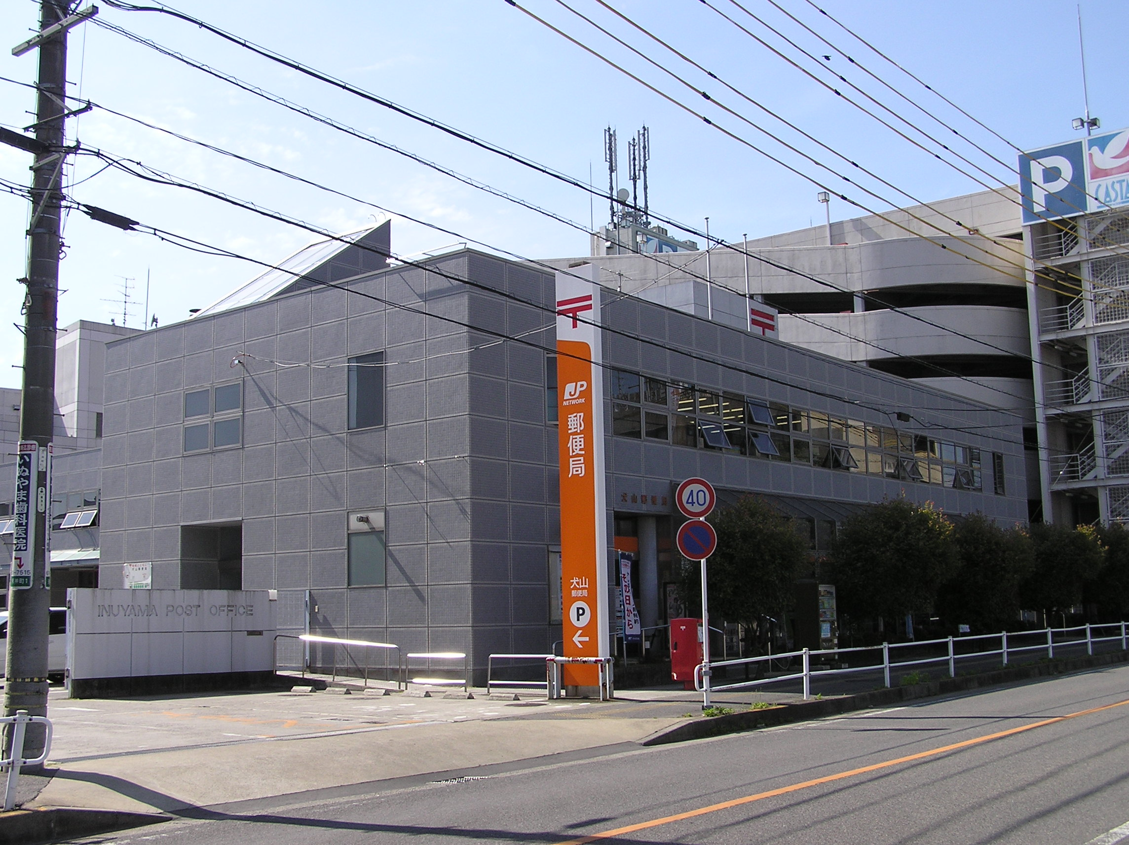 Inuyama_post_office